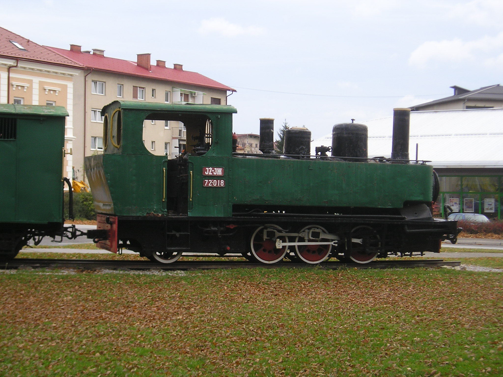 Narrow gauge (760mm) steam locomotive JŽ 72-018 in Slovenske Konjice, Slovenia. The locomotive was produced by Krauss & Co Munich in 1905 (serial nr. 5398). It was bought by Serbian state railway. It was brought to Slovenia in 1970 and exhibited in Slovenske Konjice. Pospichal Lokstatistik. More photos: 1 and 2.